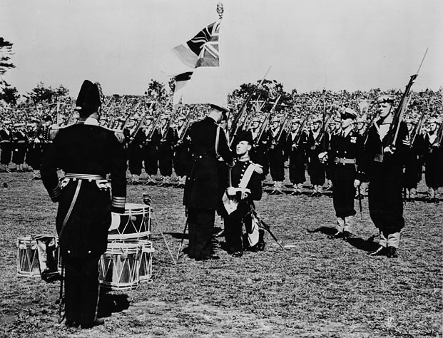 King George VI presenting the King's Colour to the Royal Canadian Navy during a ceremony in Beacon Hill Park. Victoria, Canada.